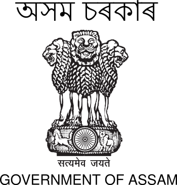 Source =